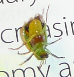 Probably Diabrotica speciosa, "vaquita de San Antonio". Fortín Olavarría, Buenos Aires province, Argentina. This image is part of a set